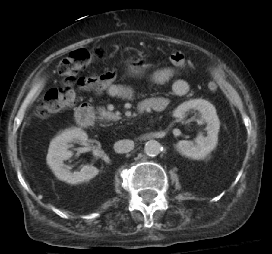 Portal hypertension due to cirrhosis resulting in revascularization of the umbilical vein